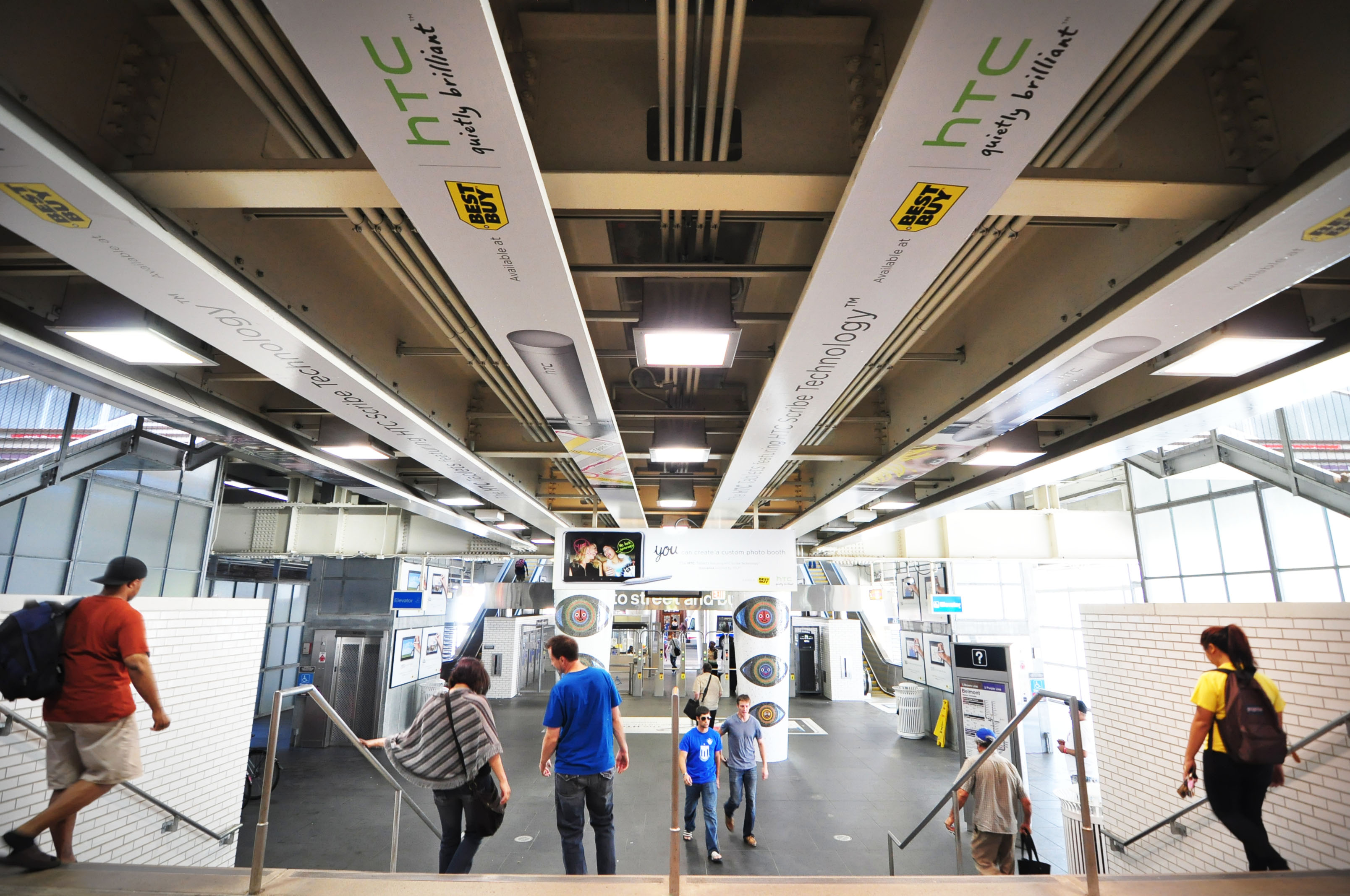 Belmont Red Line Station Domination, Chicago